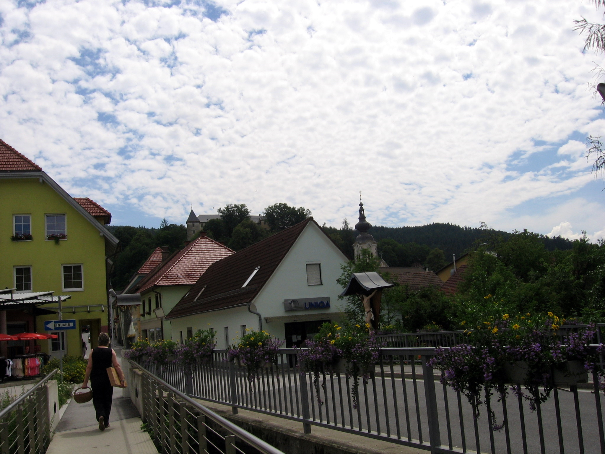 Picture is photographed with bridge and cross, in background castle